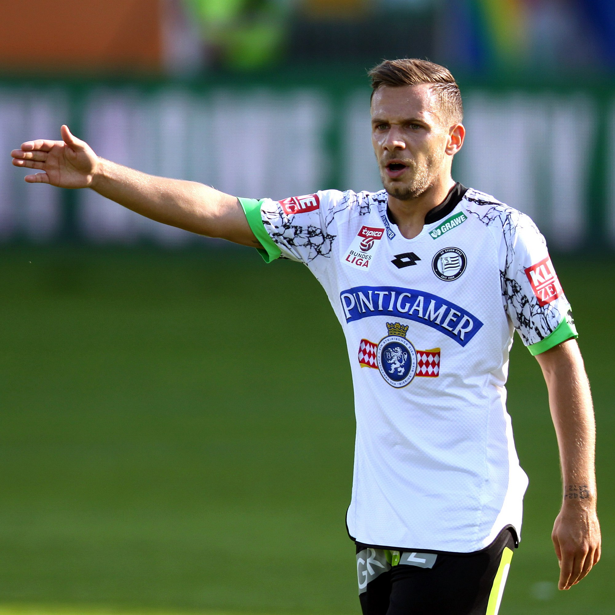 Match of the Austrian Football Bundesliga – SV Mattersburg (green shirts) vs. SK Sturm Graz (white shirts) on 2015-09-13 in Pappelstadion, Mattersburg – The photo shows Daniel Offenbacher